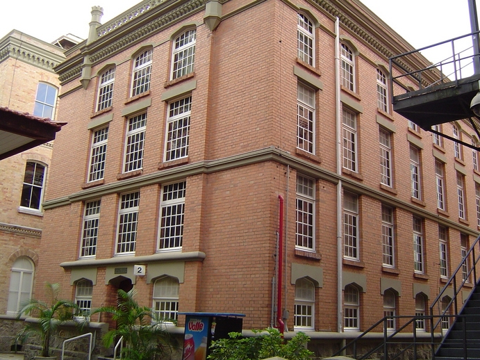 "George Alexander" Central Library at the Mackenzie Presbyterian University